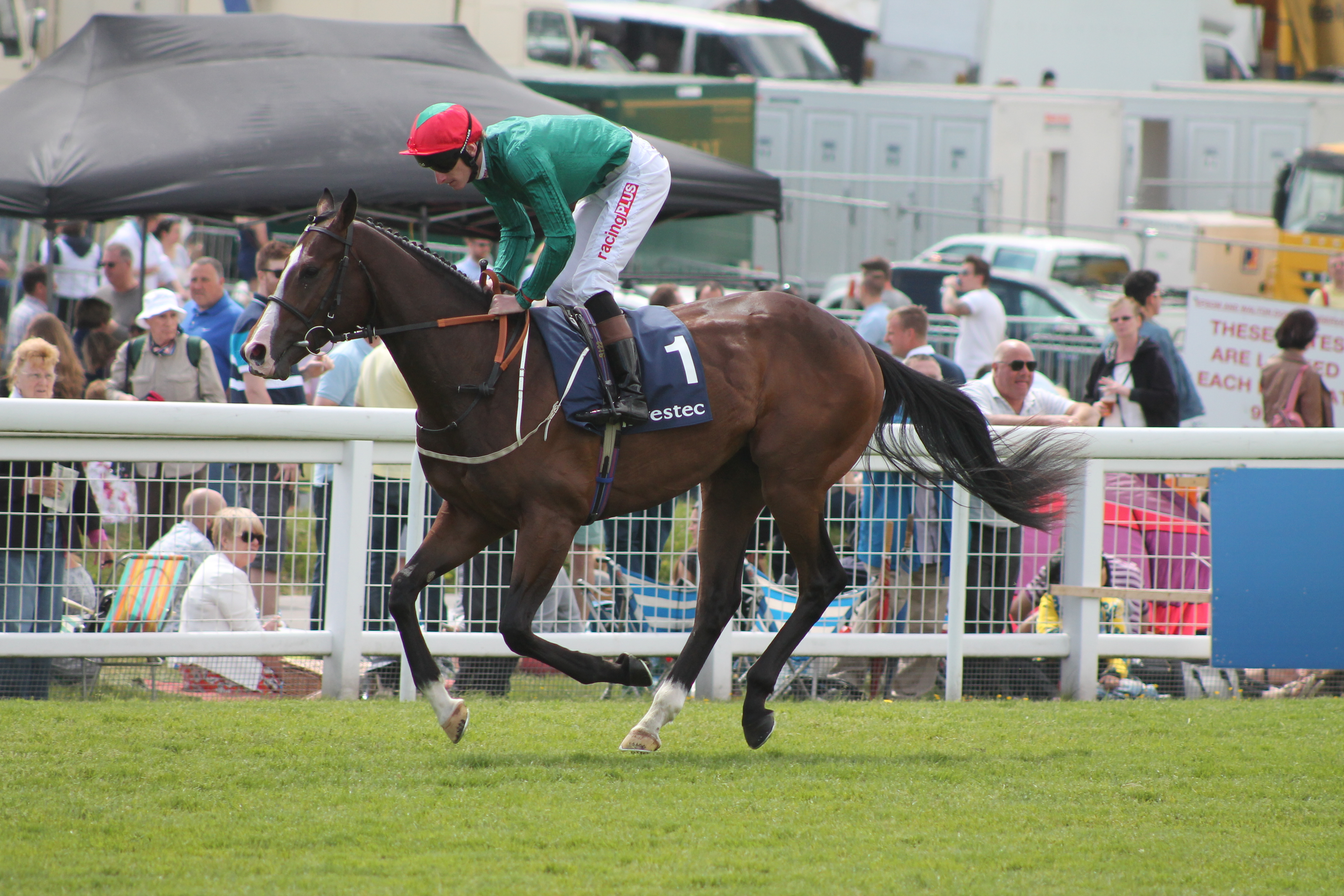 013b Epsom Derby Day 2015 - Investec Woodcote Stakes - Aleko and Adam Kirby going to post Epsom Derby